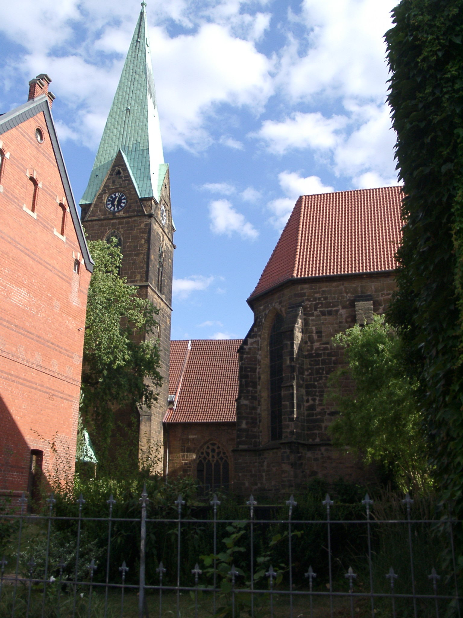 Minden: St.-Simeon Church (tower on the left, nave in the background) and St.-Maurice Church (choir on the right)